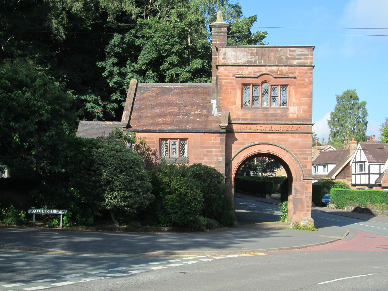 Grade II-listed building on Westwood Road, Leek, Staffordshire